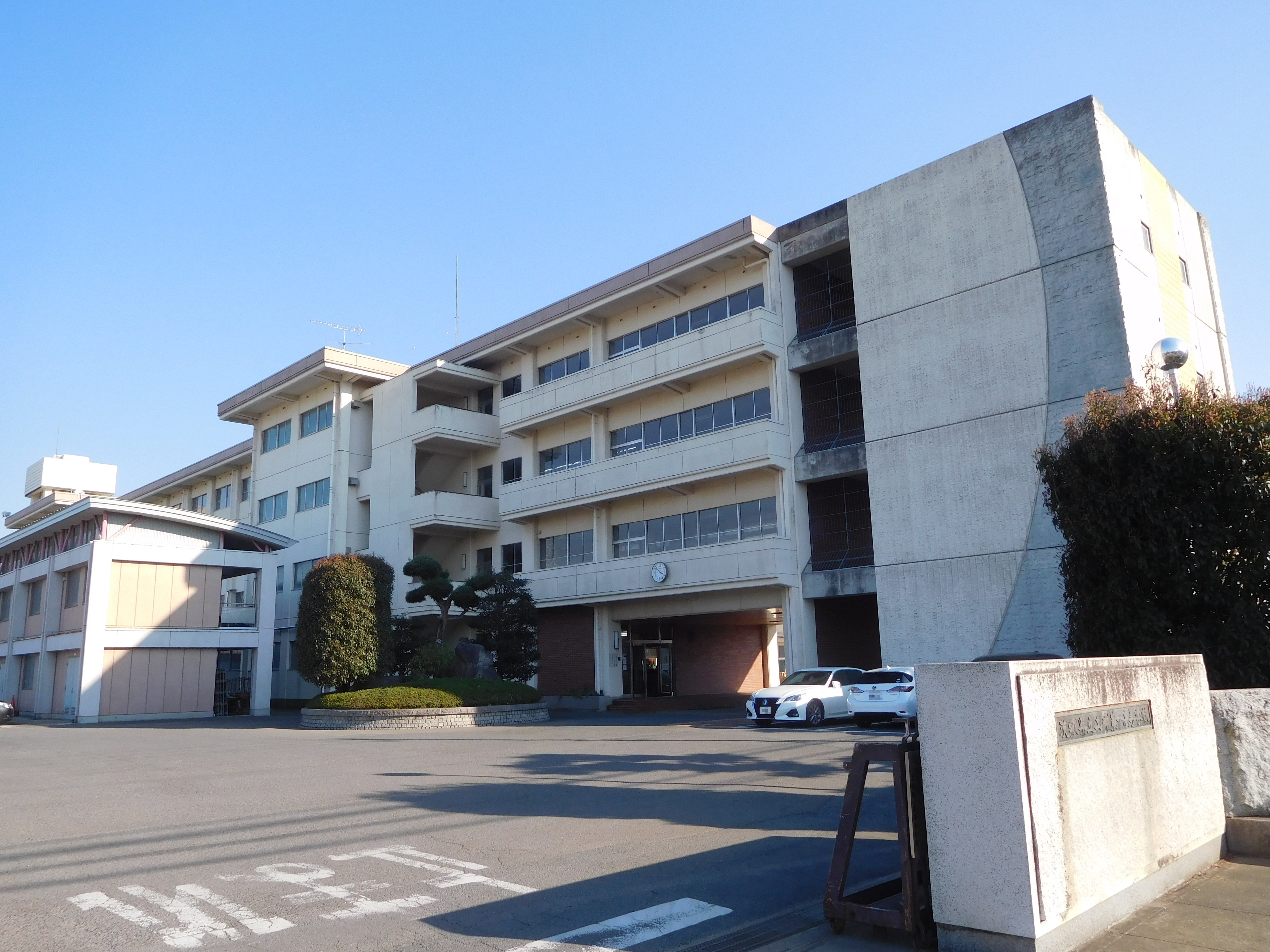 This is a school building of Ibaraki prefectural Tsuchiura First High School in Tsuchiura, Ibaraki, Japan.